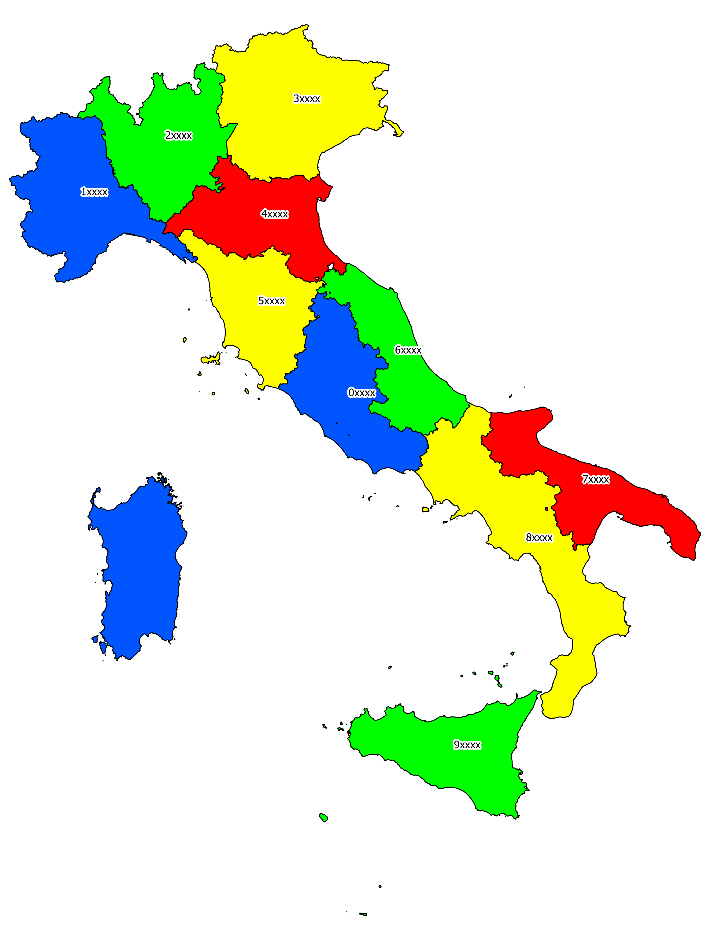 made with qgis